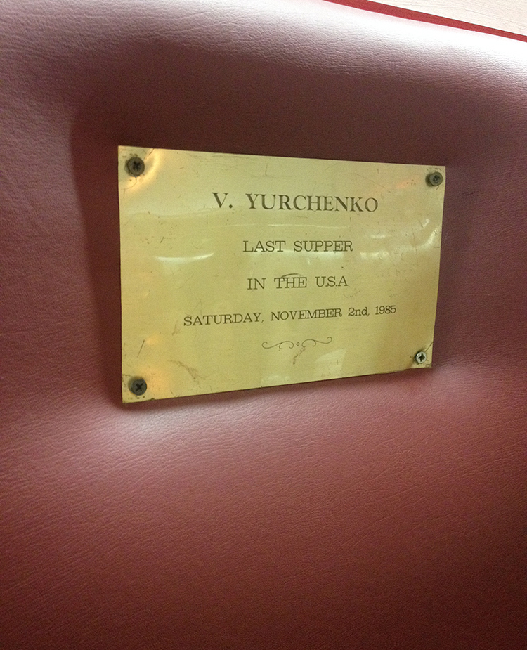 Plaque in Washington, D.C. restaurant (a Five Guys as of July 2014) commemorating Vitaly Yurchenko's last meal in America. The plaque is affixed to one of the booths. Before defecting back to the USSR, Yurchenko was last seen in America at this establishment (at that time Au Pied de Cochon, a French restaurant in the Georgetown neighborhood of Washington, D.C.) Plaque reads: V. YURCHENKO LAST SUPPER IN THE U.S.A. SATURDAY, NOVEMBER 2nd, 1985